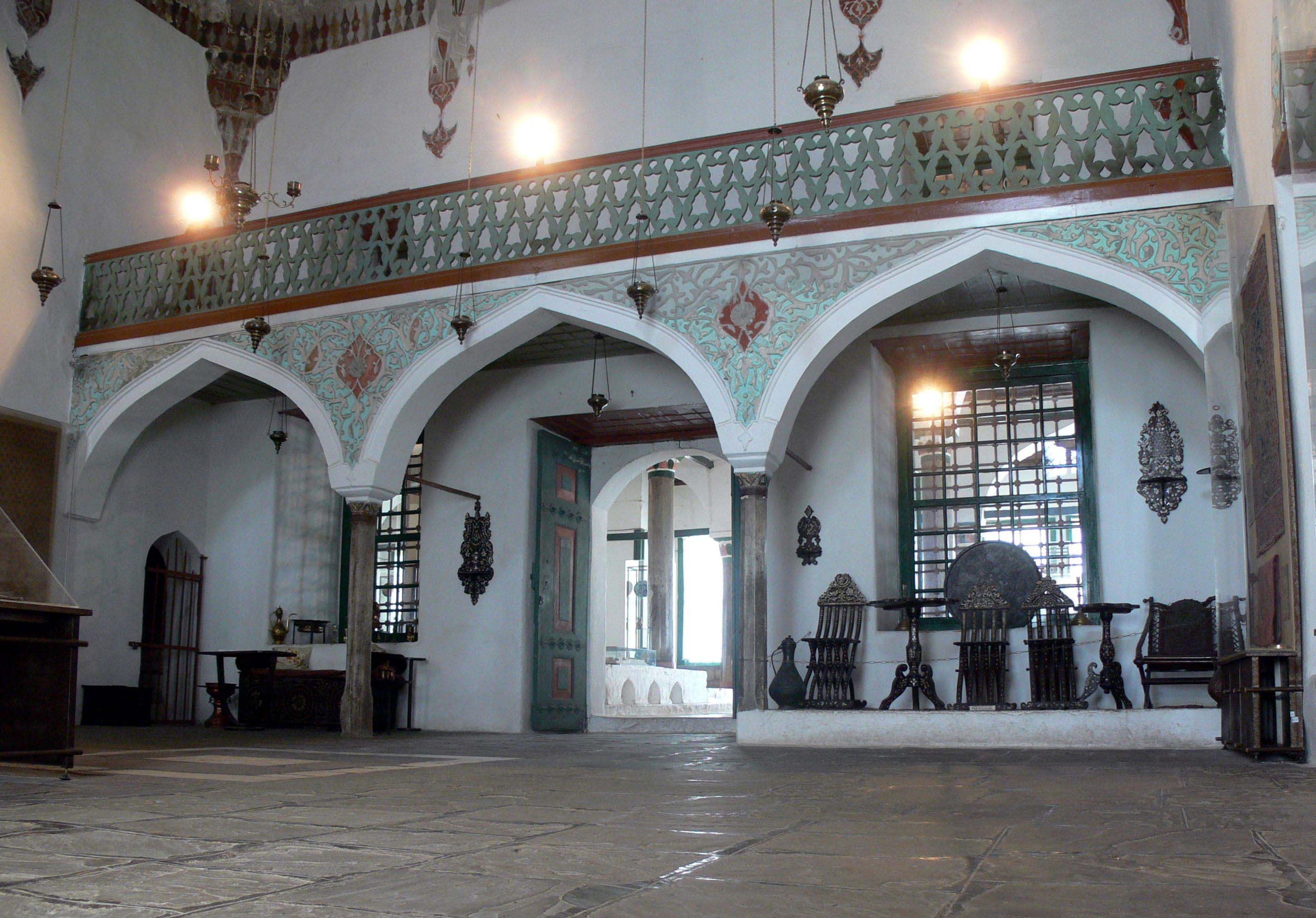 Aslan Pasha Mosque in Ioannina (Greece)